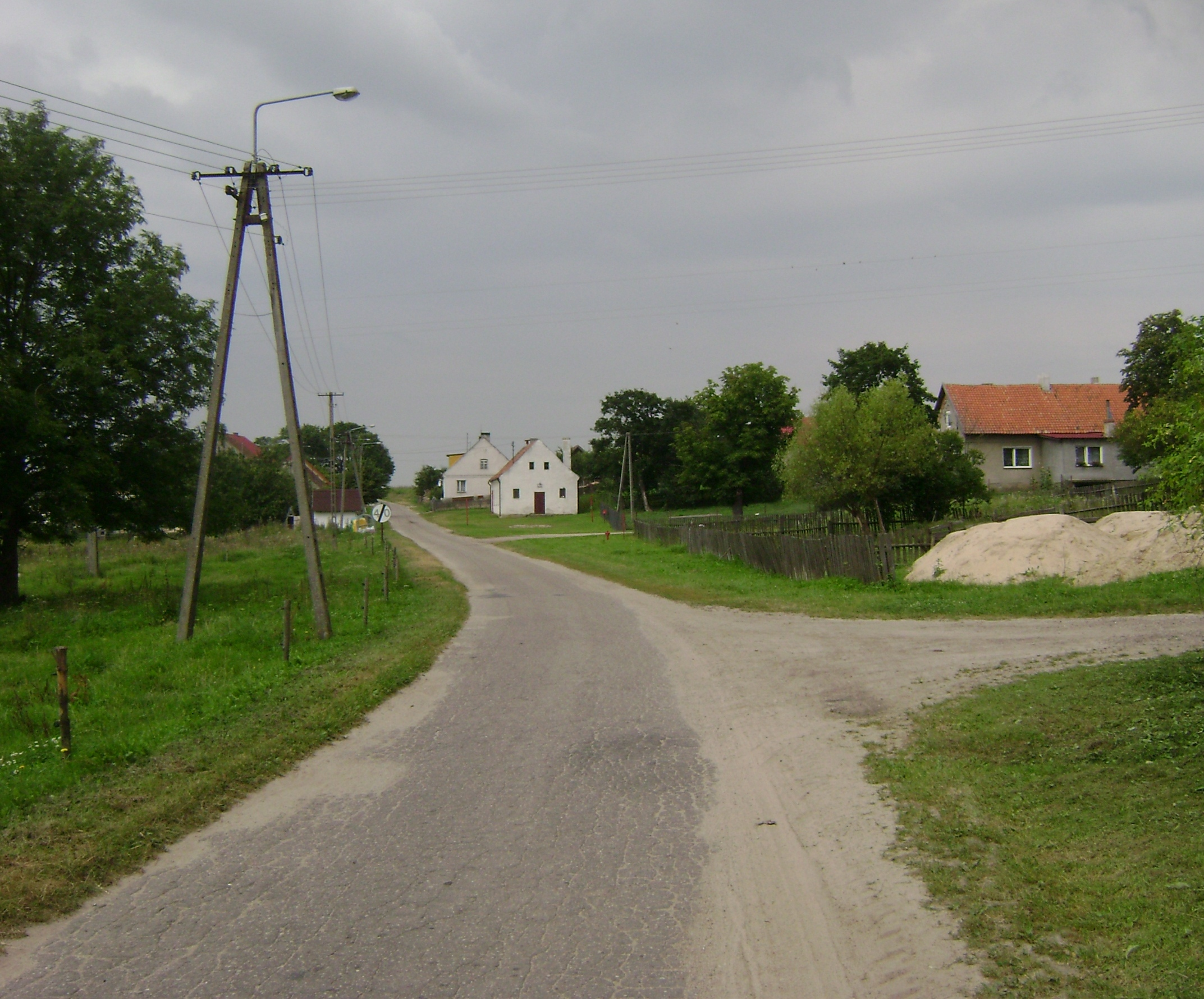 Poland. Szczytno County. Gmina Pasym. Jurgi